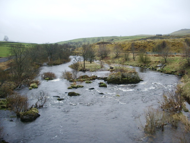 River Ribble Looking downstream from Helwith Bridge